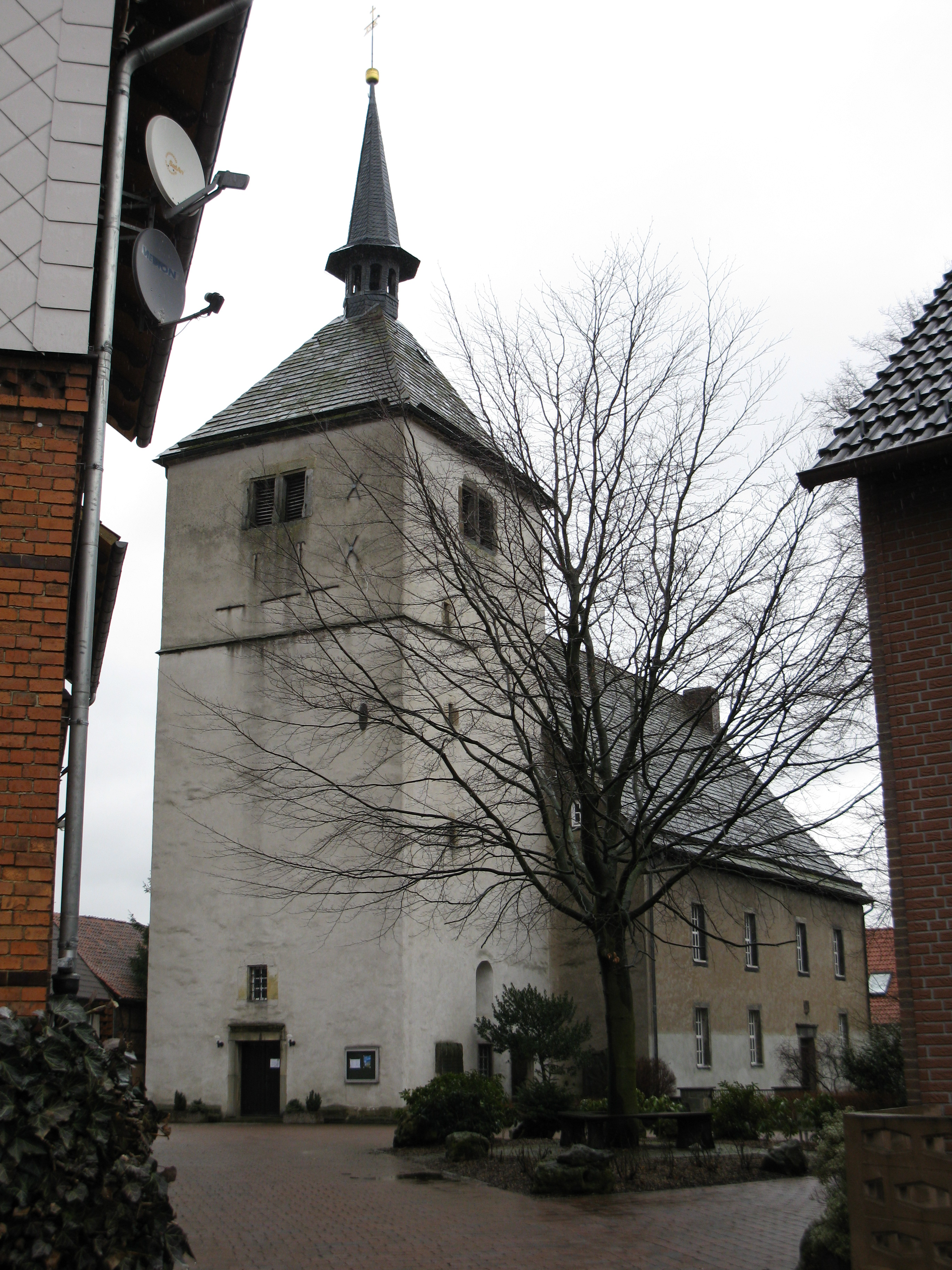 Church, Salzhemmendorf-Hemmendorf, Germany